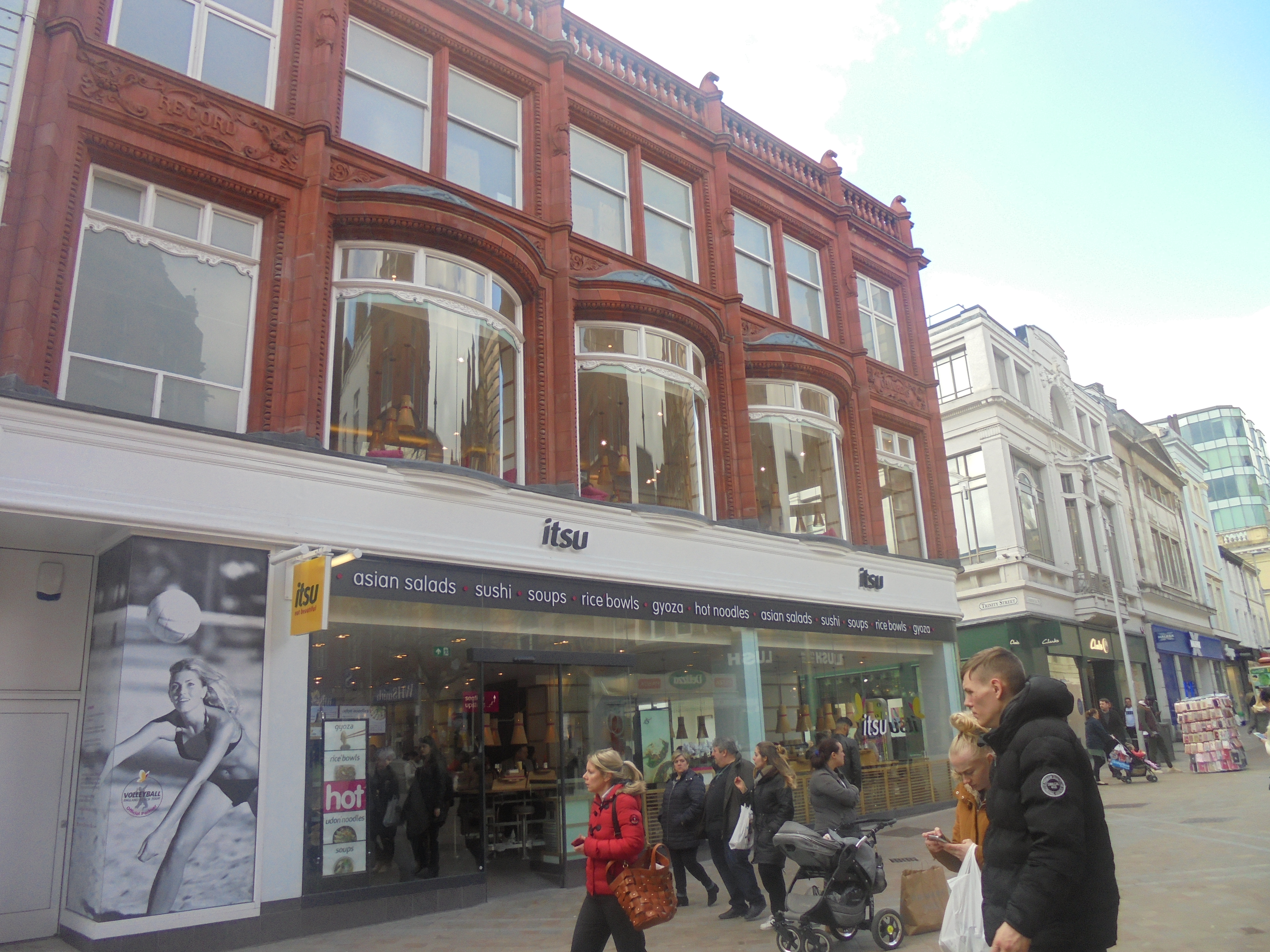 Itsu, Commercial Street, Leeds West Yorkshire. Taken around midday on Thursday the 29th March 2018. (The clocks having moved mean the time is an hour later than the metadata suggests).